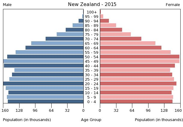 A population pyramid illustrates the age and sex structure of population and may provide insights about political and social stability, as well as economic development. The population is distributed along the horizontal axis, with males shown on the left and females on the right. The male and female populations are broken down into 5-year age groups represented as horizontal bars along the vertical axis, with the youngest age groups at the bottom and the oldest at the top. The shape of the population pyramid gradually evolves over time based on fertility, mortality, and international migration trends.